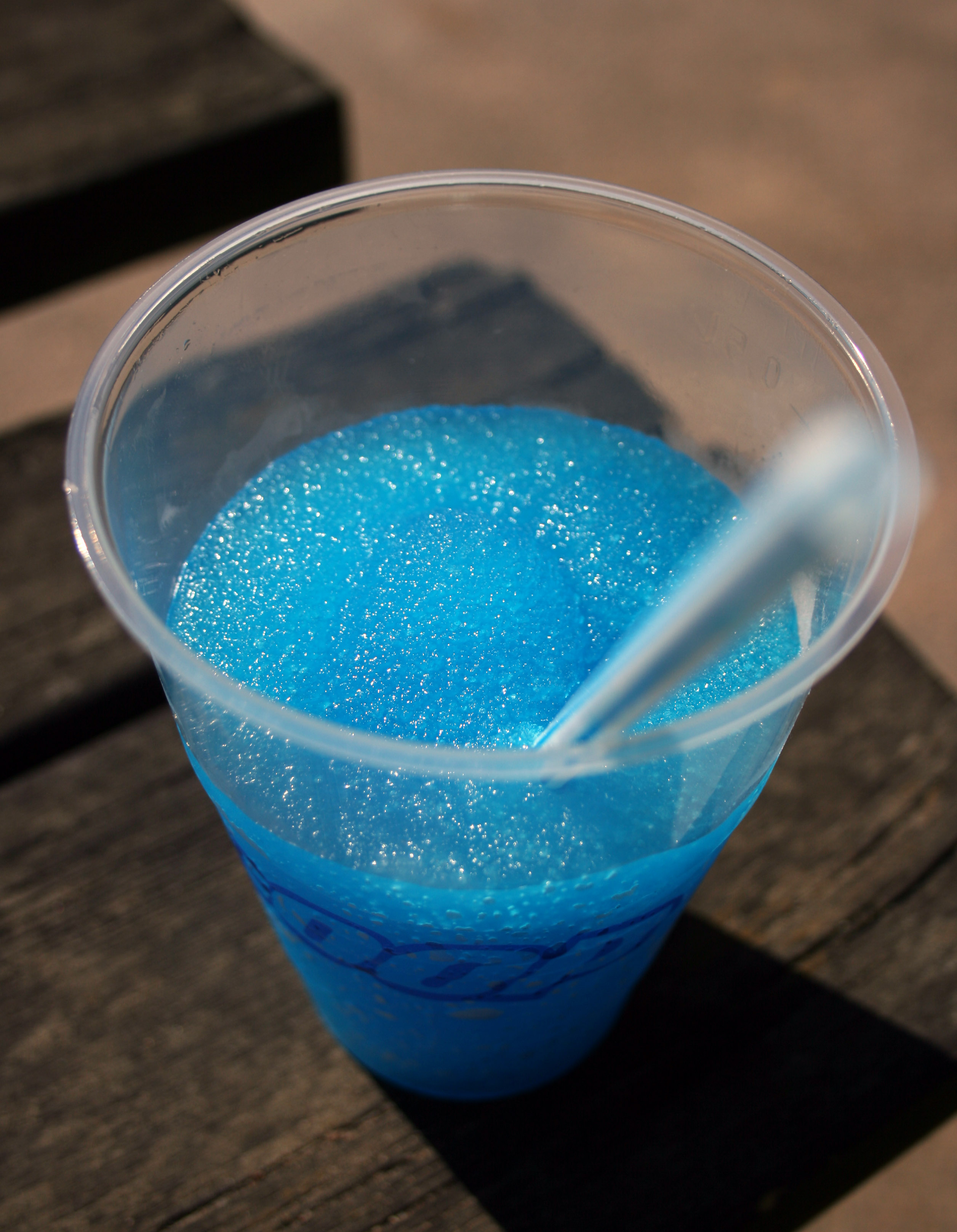 A Slush drink